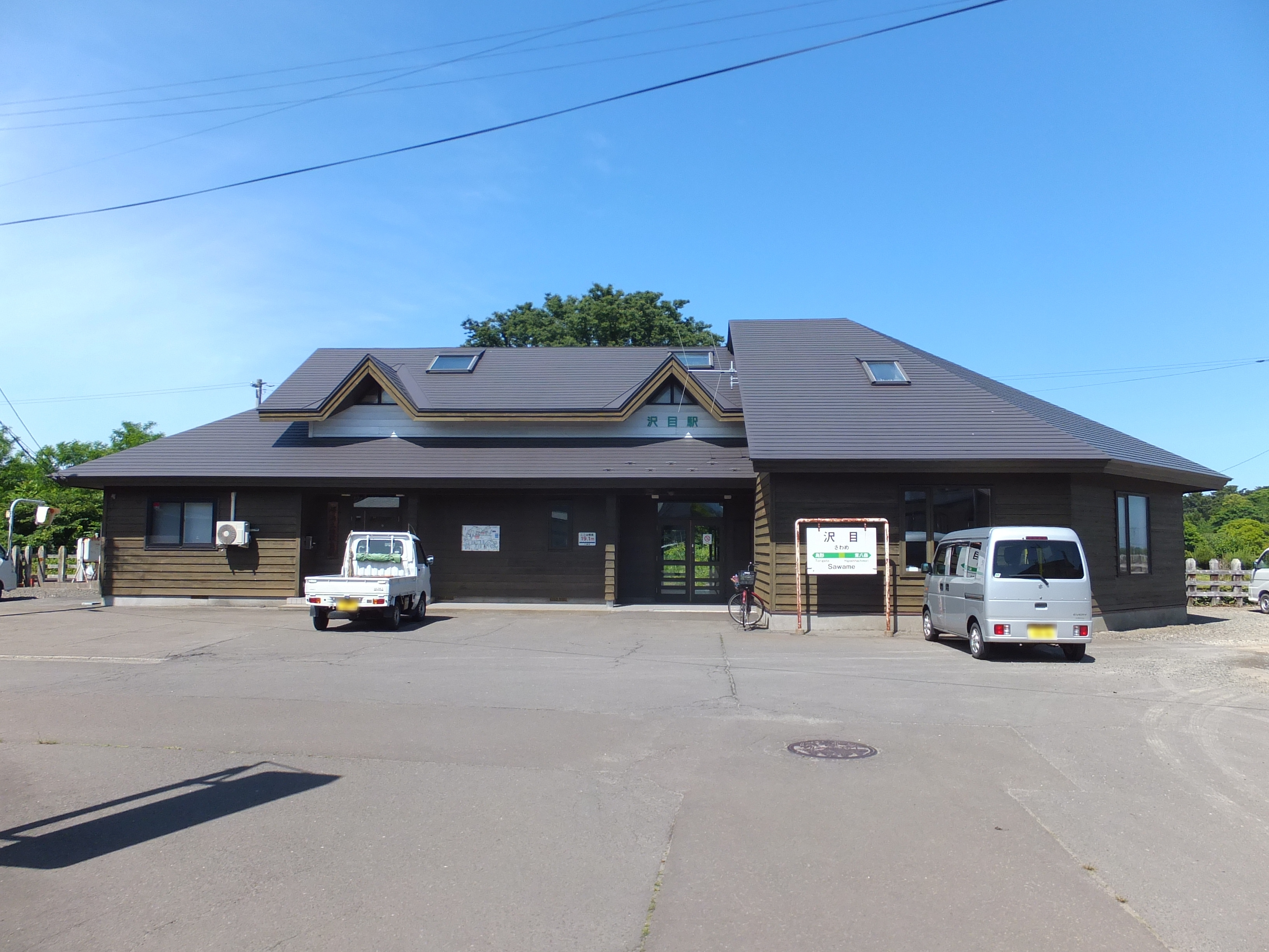 Sawame Station on the Gonō Line, in Happo Town, Akita, Japan